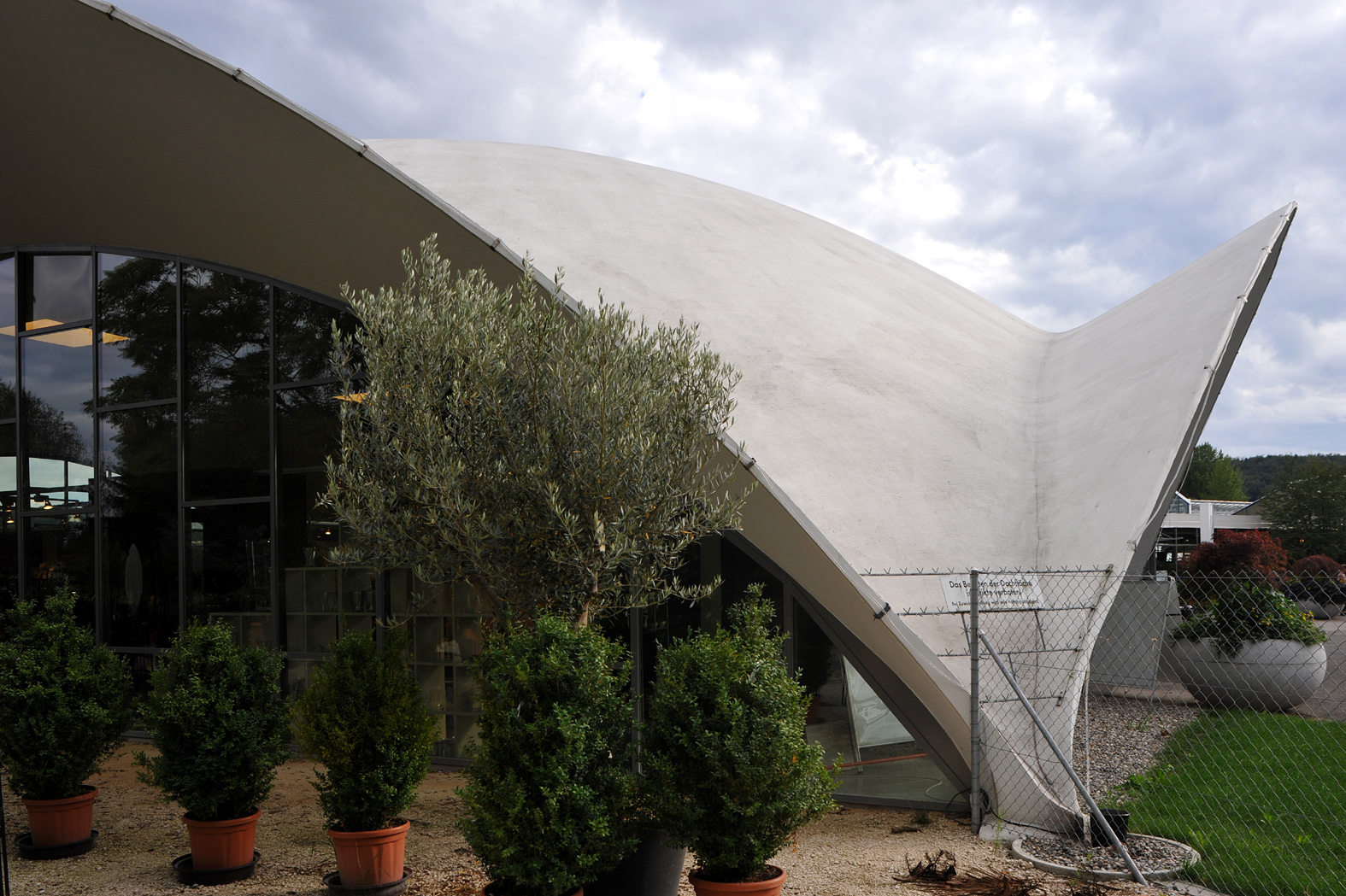 Concrete shell roof (Isler shell) of the garden center Wyss in Zuchwil, built 1962; Solothurn, Switzerland.